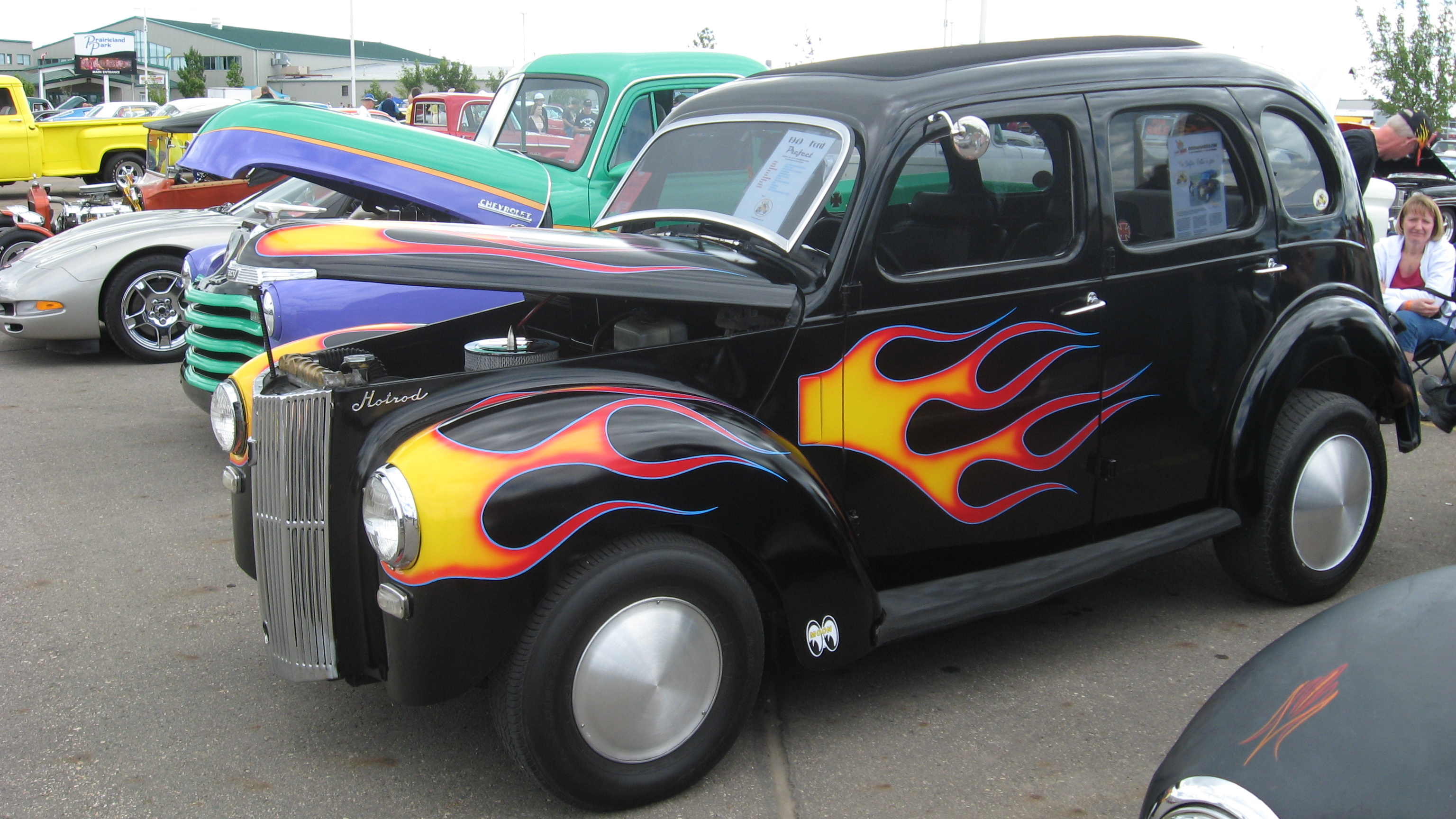 custom car, shot at local car show/swap meet